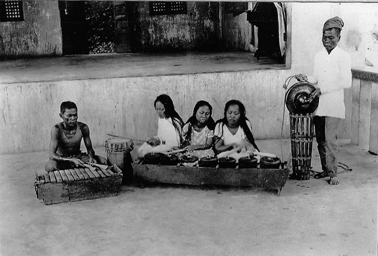 Culion leper colony, workers at work [undated]. Selected by Scott.